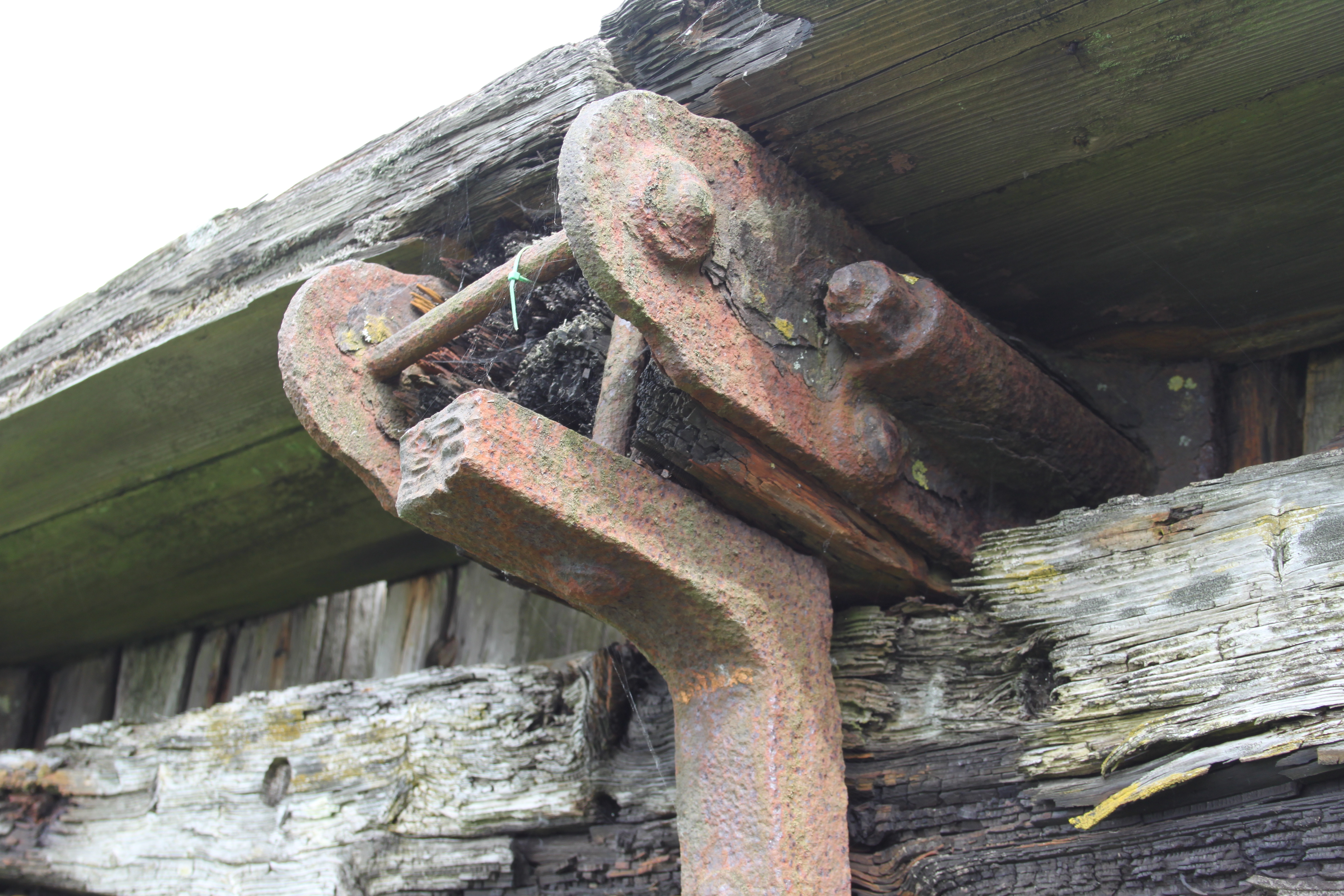 Metal fixings on Dispatch one of the Purton Hulks